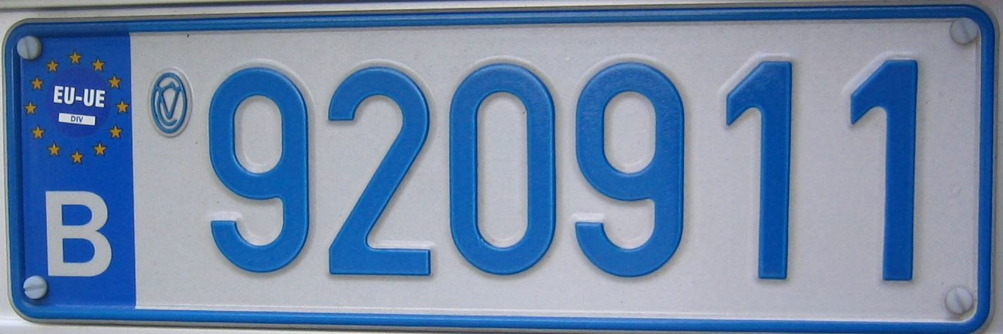 Belgian vehicle registration plate for officials and other servants of international organisations.